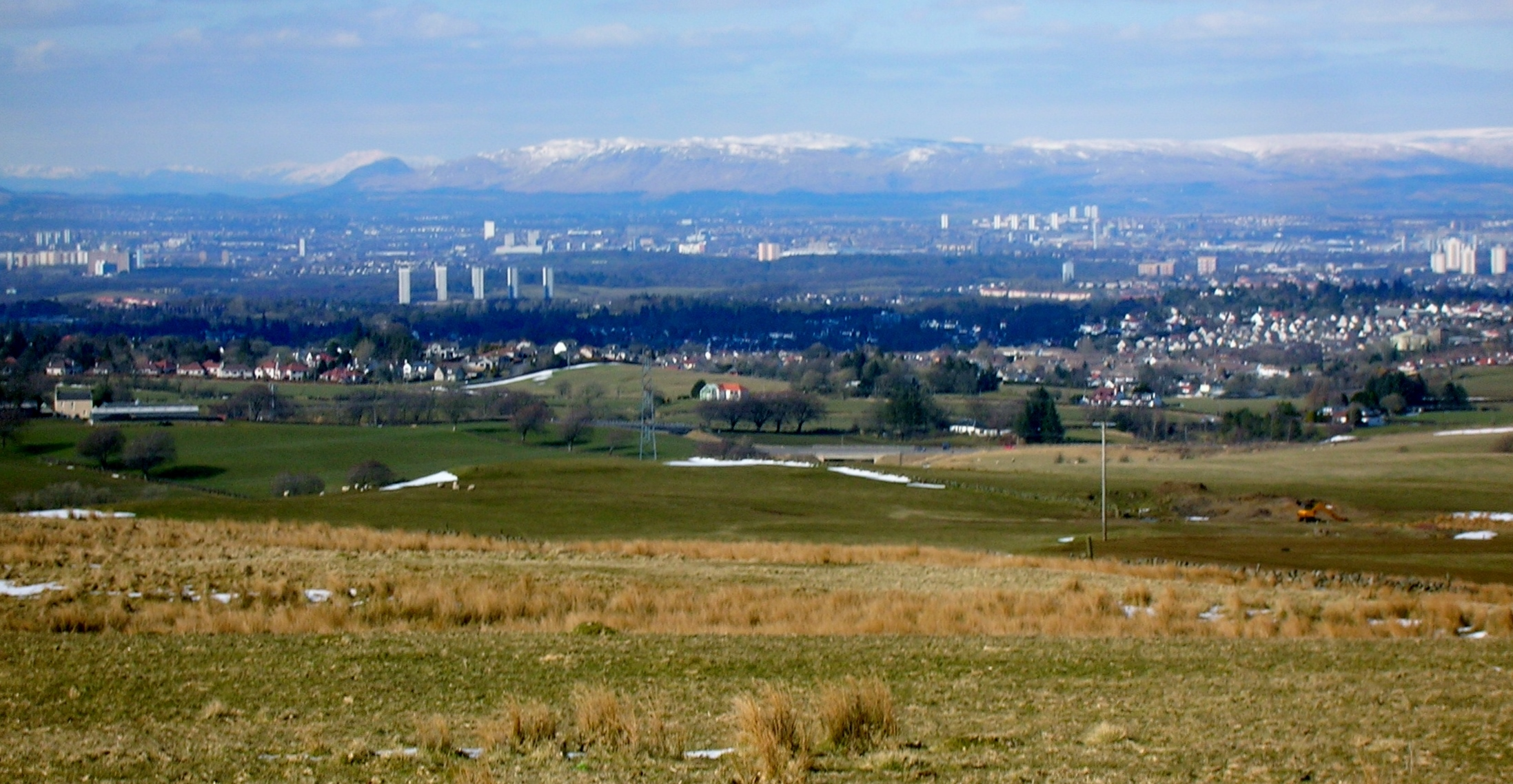 Glasgow from the Bonnyton Moors, Eaglesham, East Renfrewshire, Scotland.